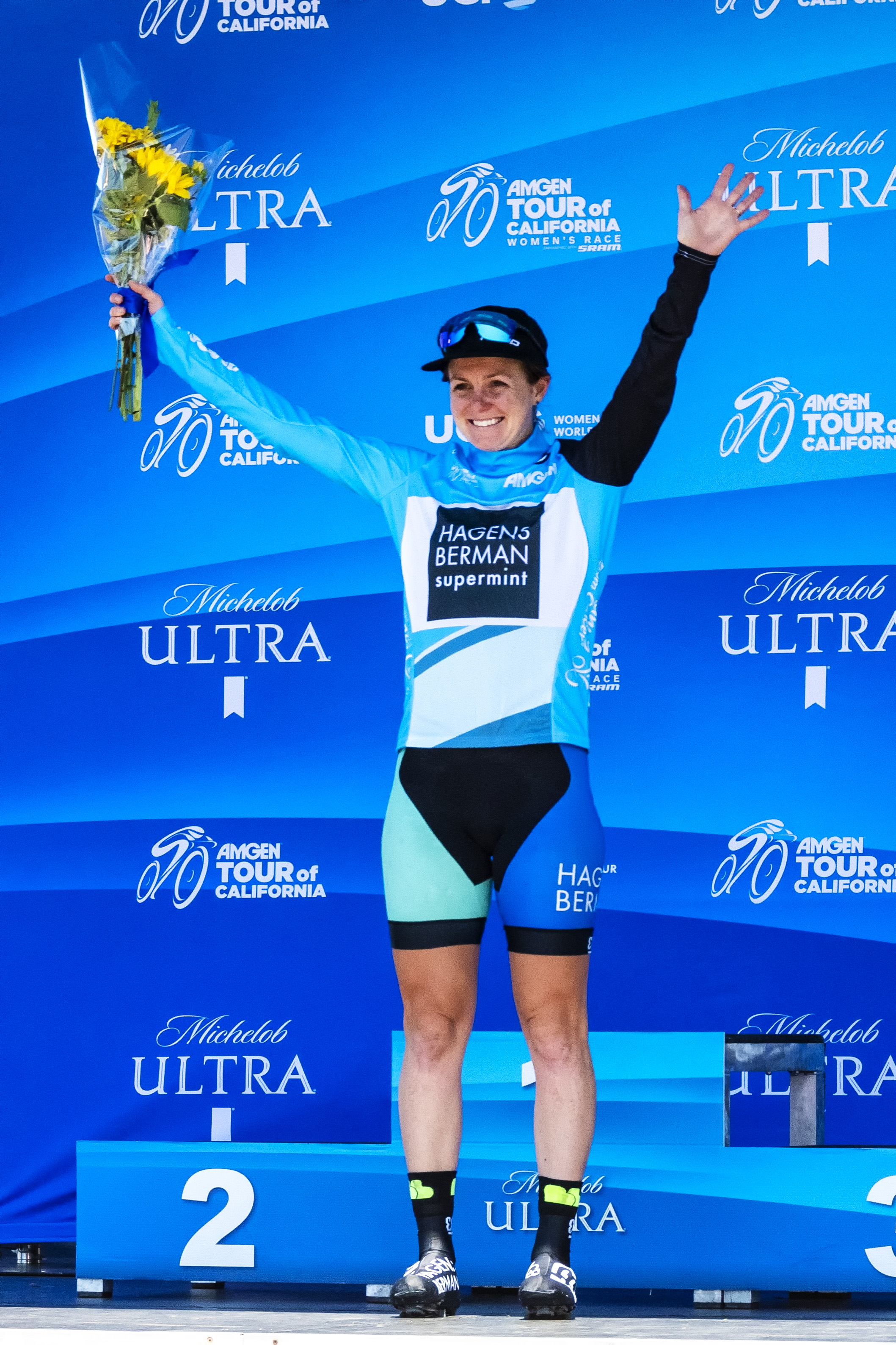 Amgen Women's Tour of California 2018